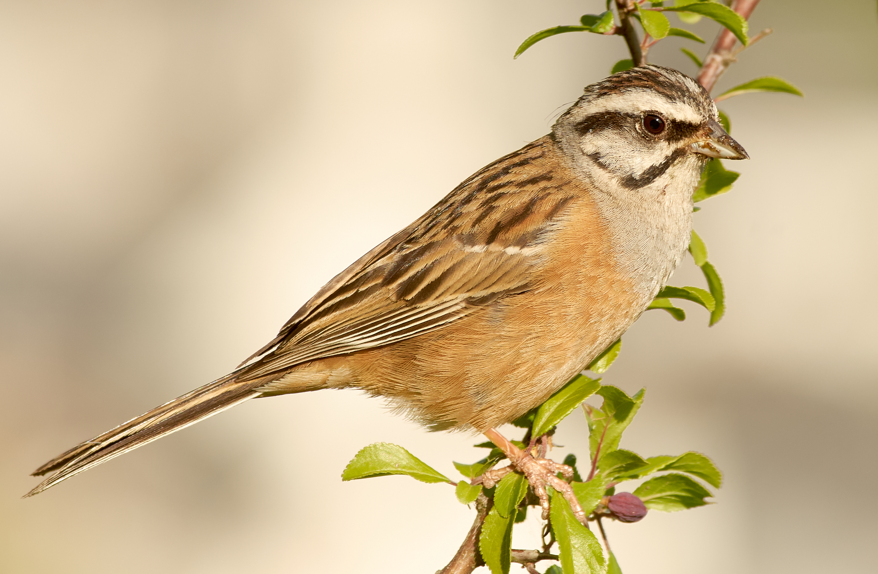 Rock Bunting (Emberiza cia) Cochem-Zell district in Rhineland-Palatinate, Germany